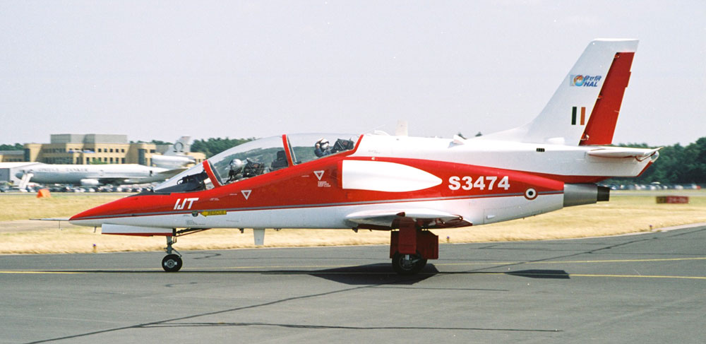 HAL HAL HJT-36 Farnborough